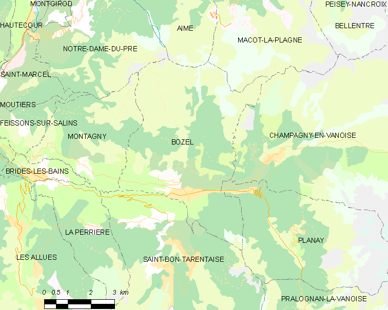 Map of French municipality